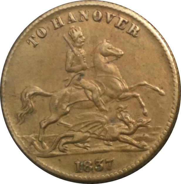 "To Hanover" token or Cumberland Jack, depecting King Ernest I of Hanover